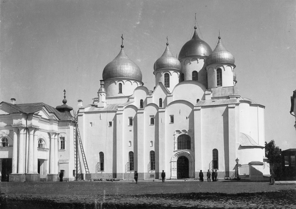 Cathedral of Saint Sofia in Velikij Novgorod. Sofiakatedralen i Novgorod i Ryssland. Location: Velikij Novgorod, Russia Photograph by: AeJse Trasarebre Date: c. 1900 Format: Albumen print Read more about the photo database (in english)